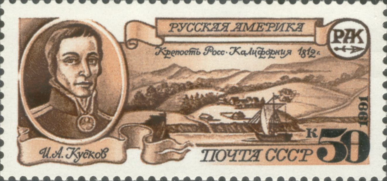 Stamp of the Soviet Union, Russian explorer of Alaska and California Ivan Kuskov, 1991, CPA #6304.